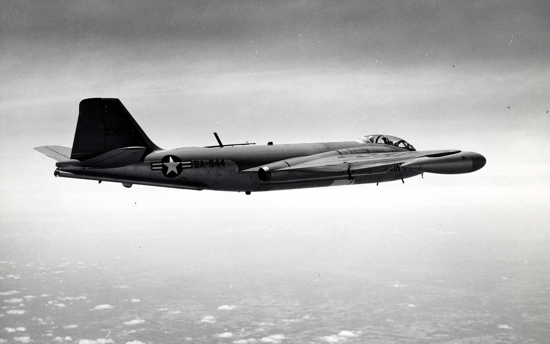 Martin B-57C Canberra in flight (SN 53-3844)